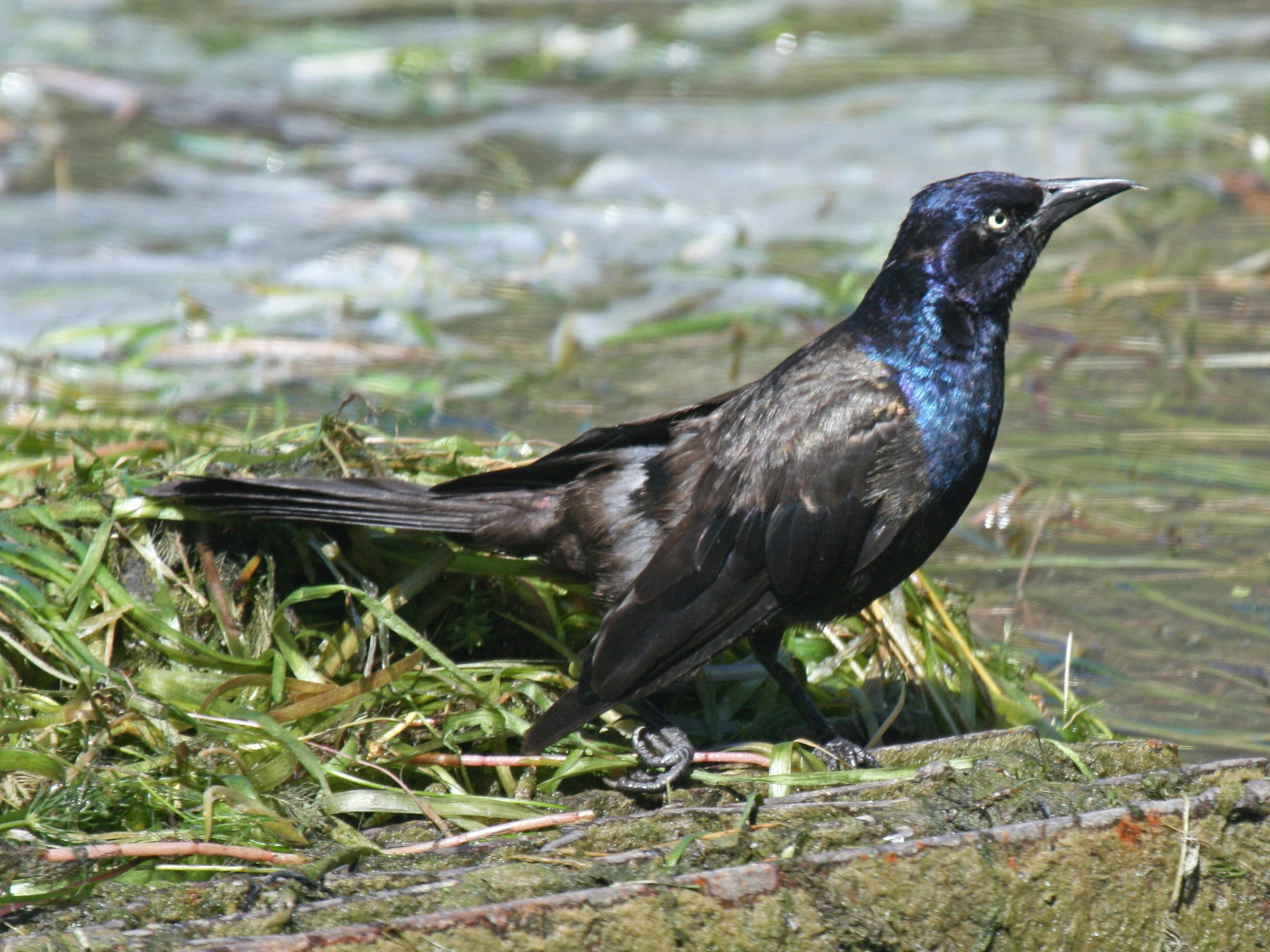 Male Common Grackle (Quiscalus quiscula) - state of New York